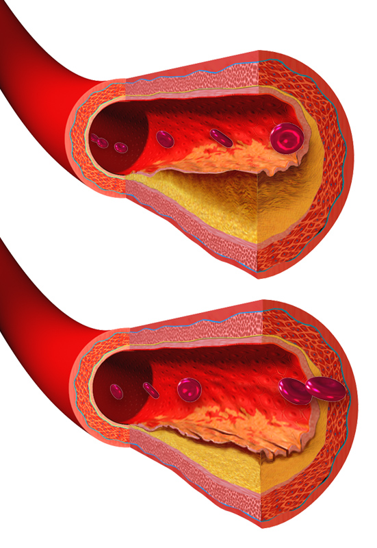 Stable vs. Unstable Plaque. See a related animation of this medical topic.